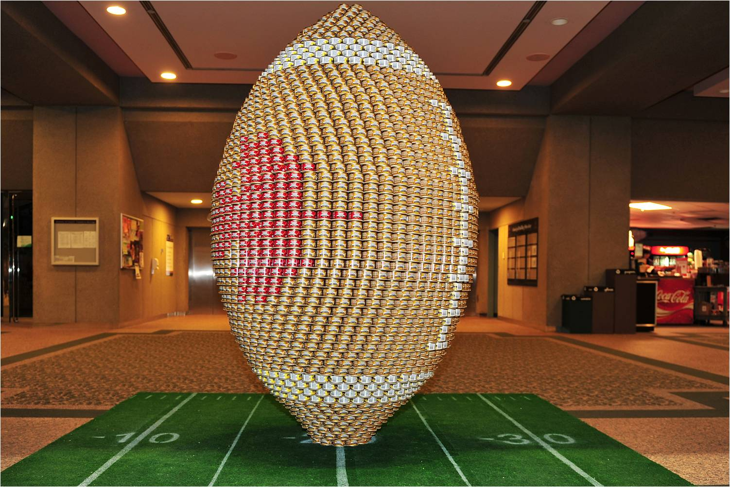 The "Two-point CANversion" can structure from the 2010 competition defies gravity and structural ingenuity.